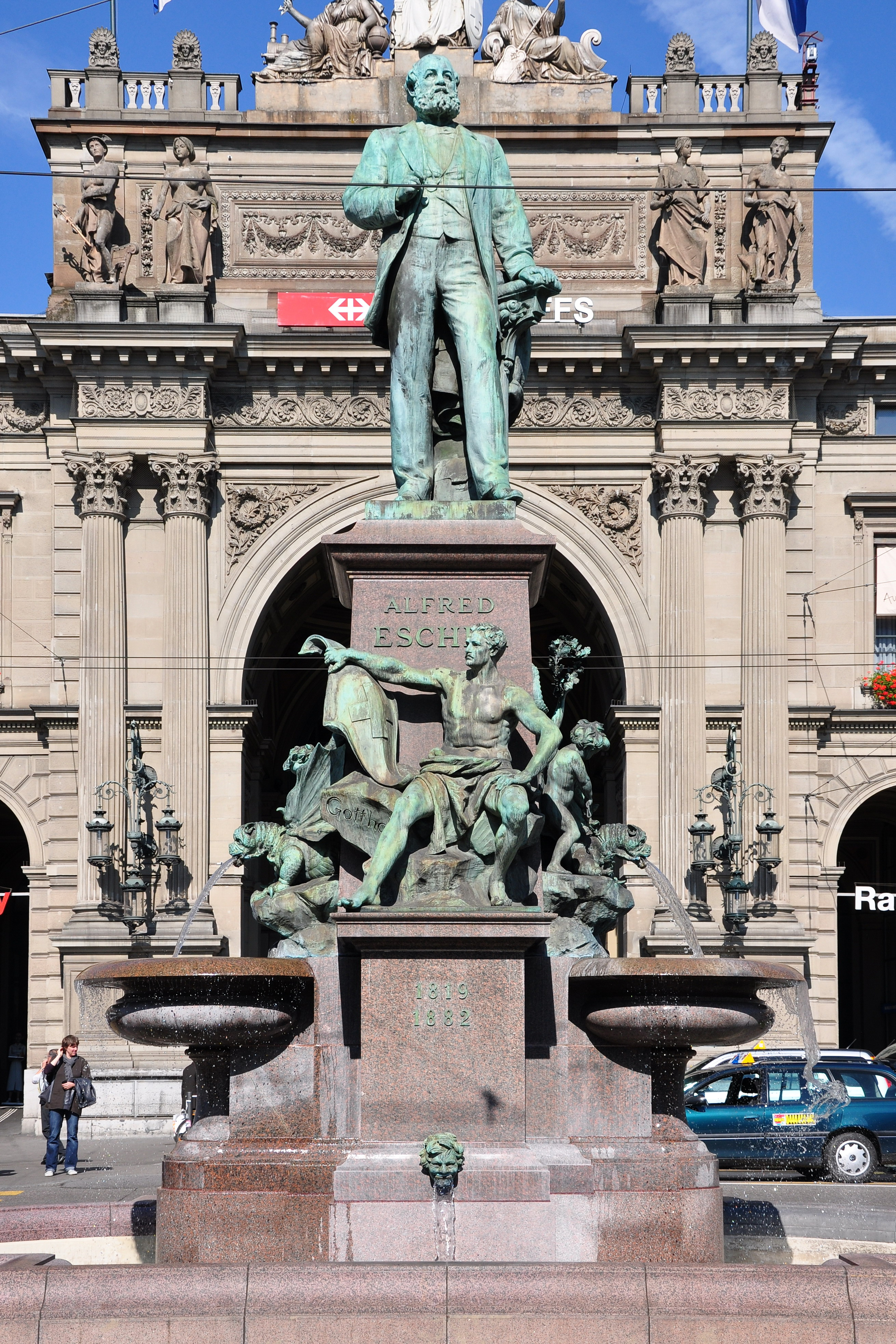 Alfred Escher monumental fountain, sculpted by Richard Kissling, on Bahnhofplatz situated at Hauptbahnhof in Zürich (Switzerland)